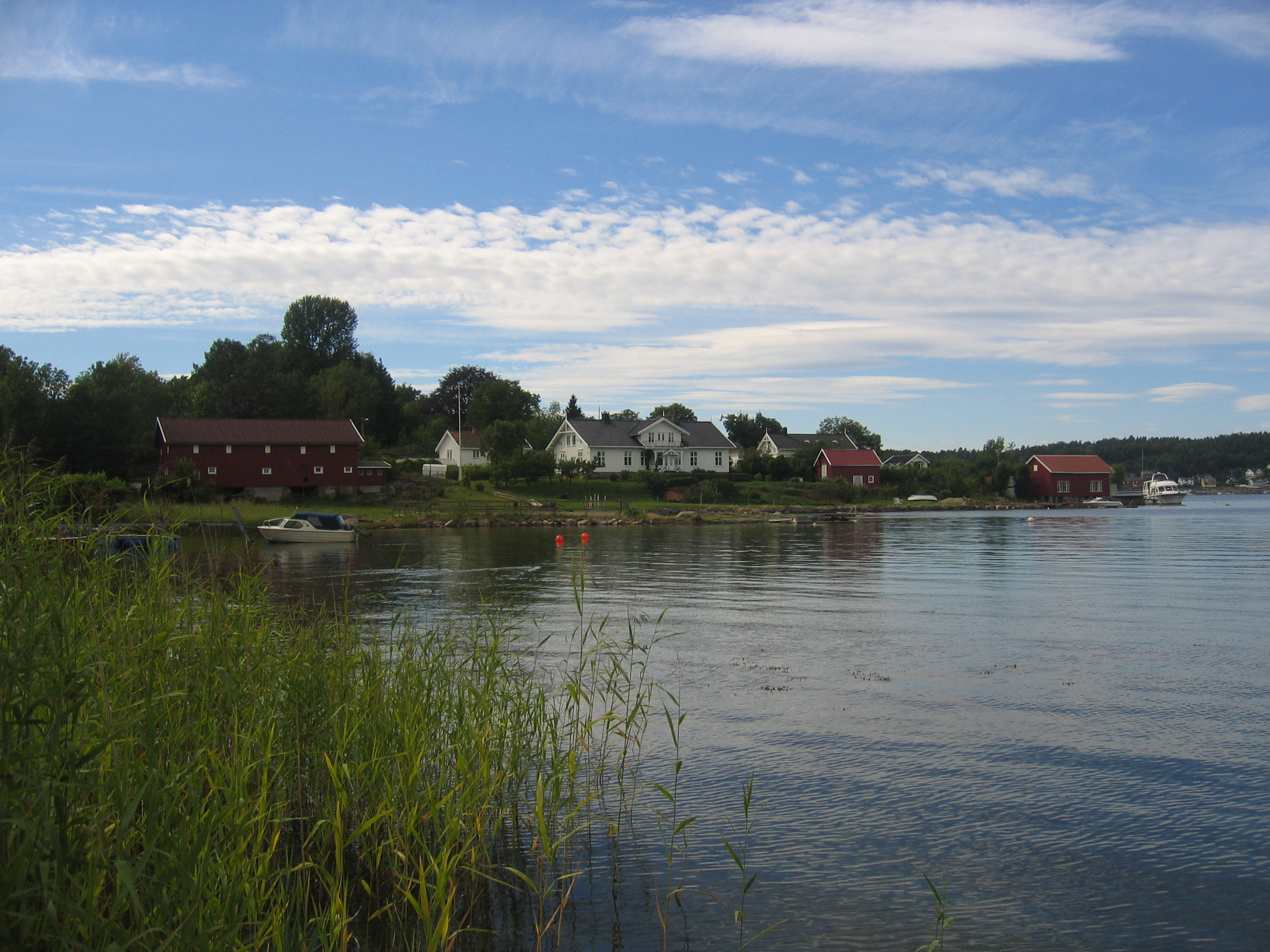 Farm at Sundene, Tjøme.